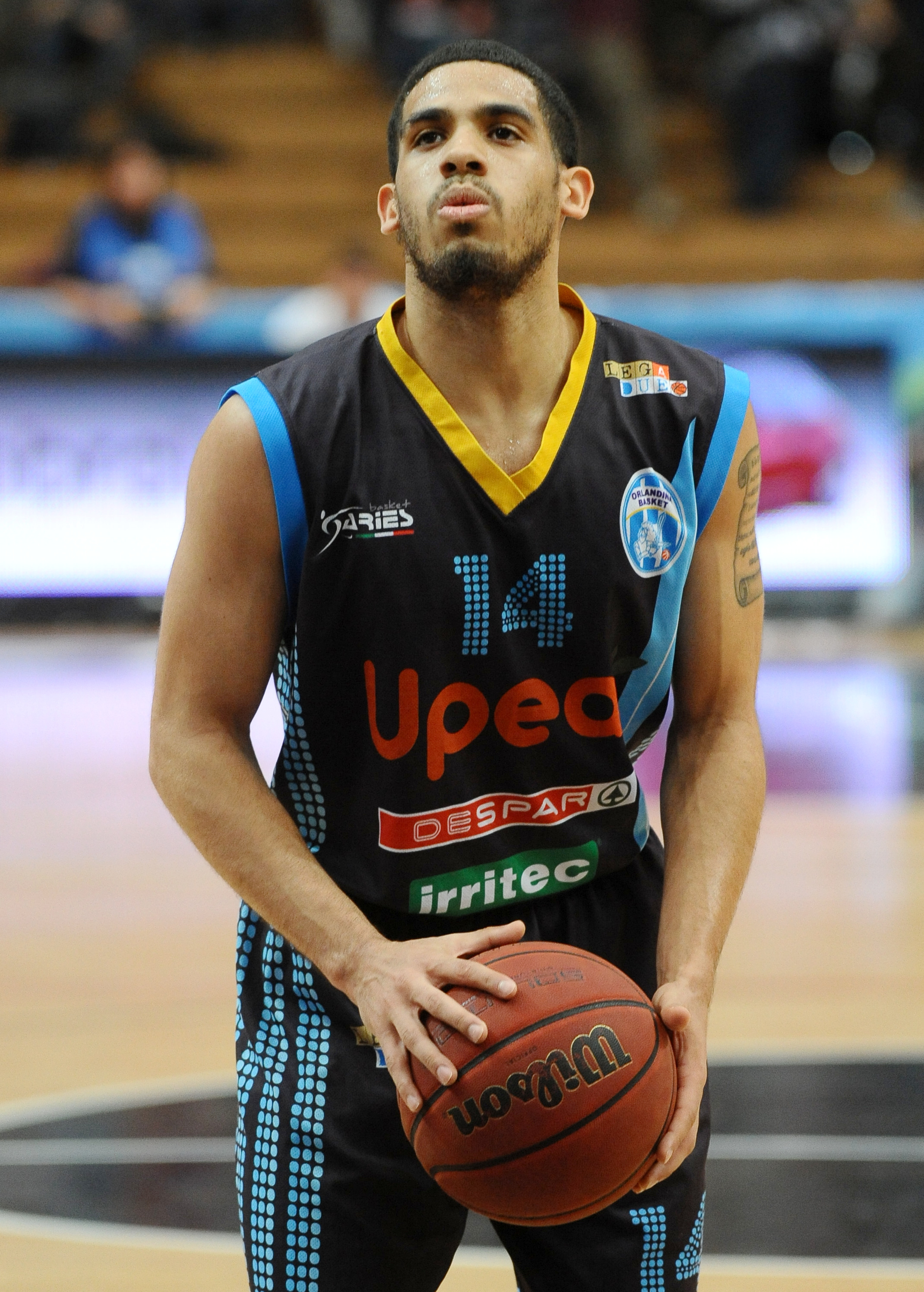 Talor Battle at PalaTrento as a player of Orlandina Basket.